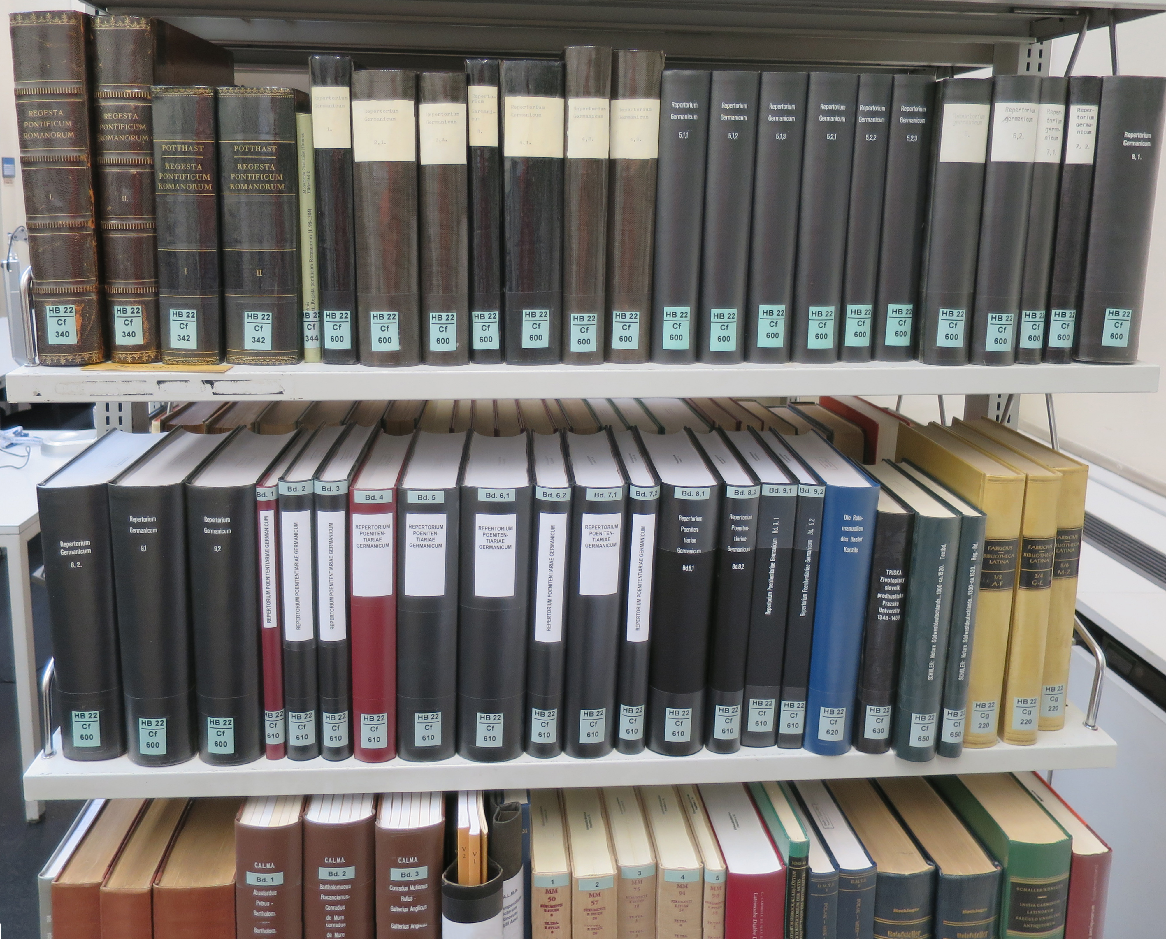 Repertorium Germanicum on shelf at Universitätsbibliothek Johann Christian Senckenberg, Frankfurt am Main, Germany